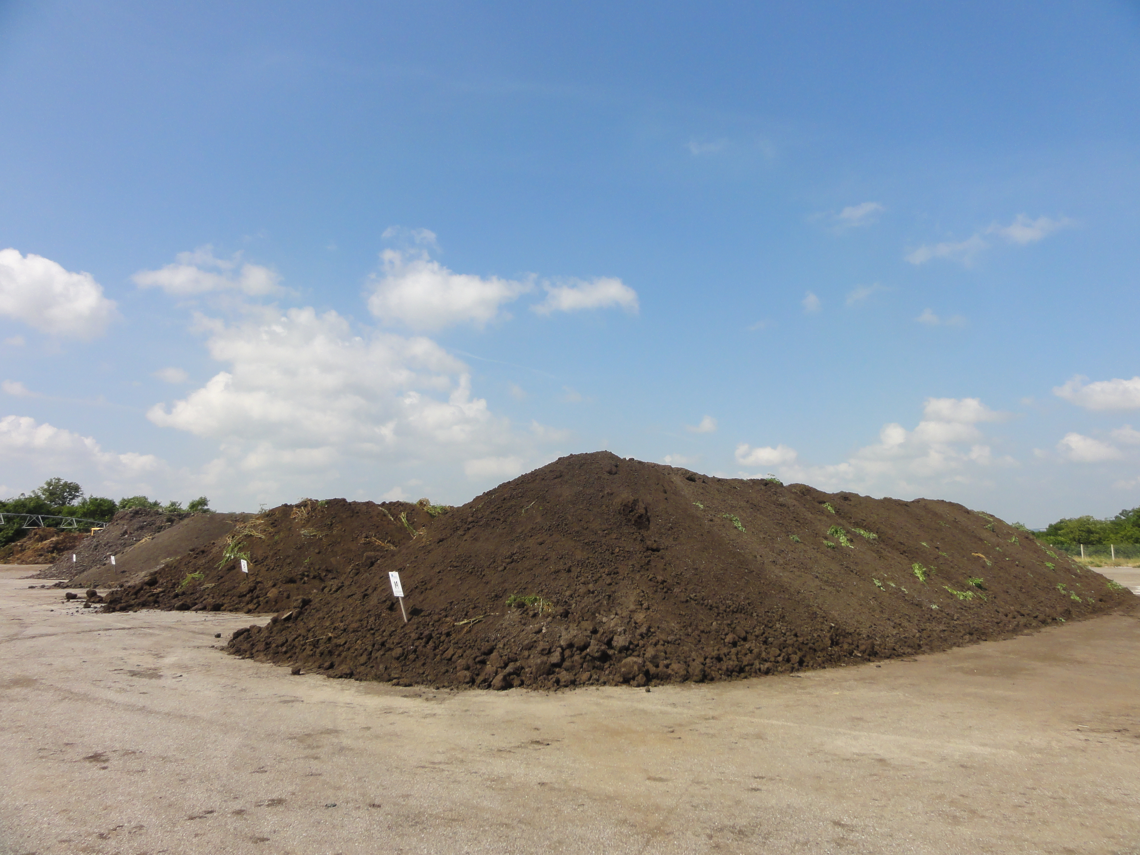 Alignment of several compost piles on a dedicated composting facility in France. The piles have the following approximate dimensions : 3m x 3m (height, width) x 20m (length). Signs indicating the reference number of the piles are present.